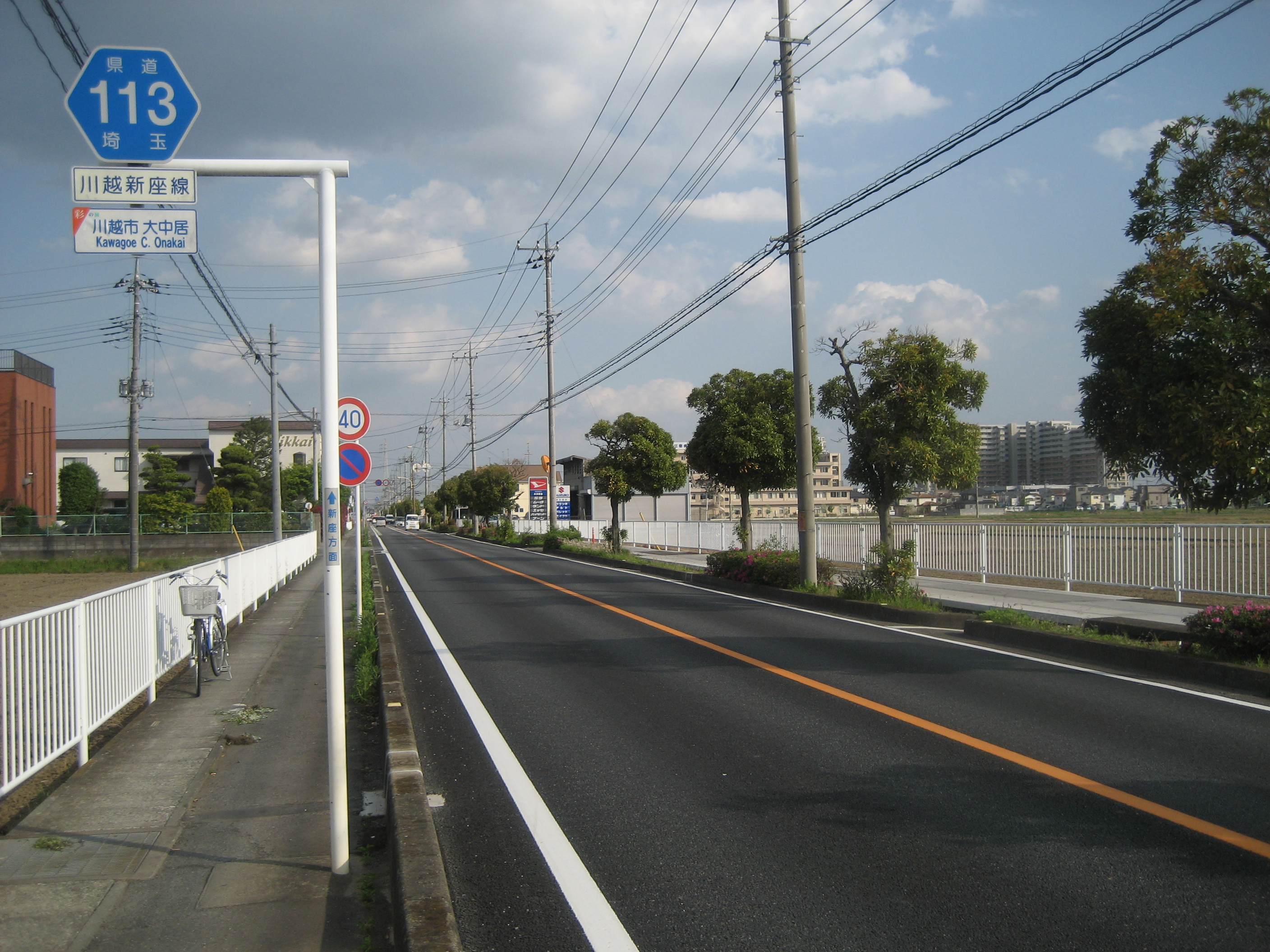 The Saitama Prefectural Road Route 113 in Onakai, Kawagoe City